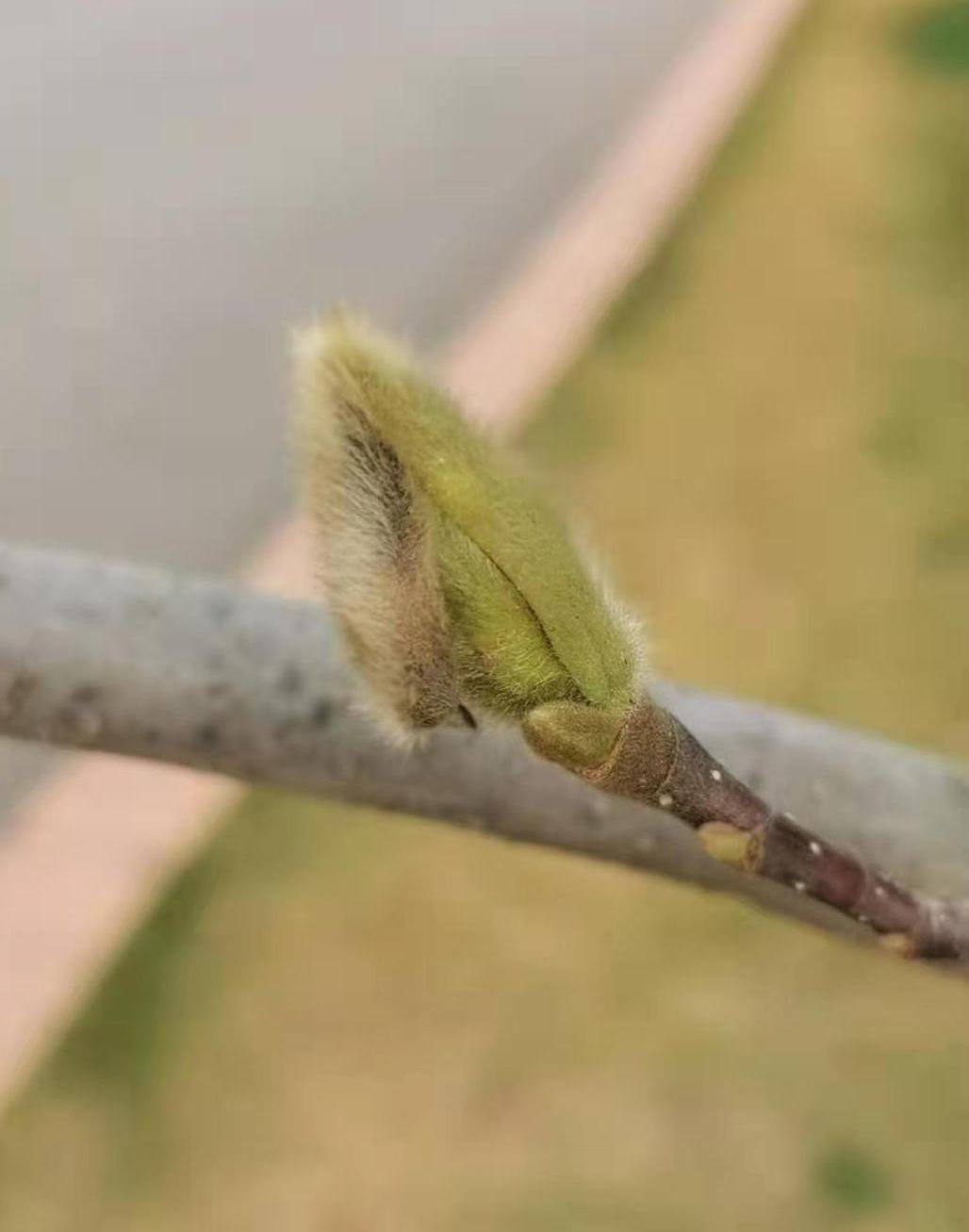 Magnolia liliiflora. Mile City, Yunnan Province, China.